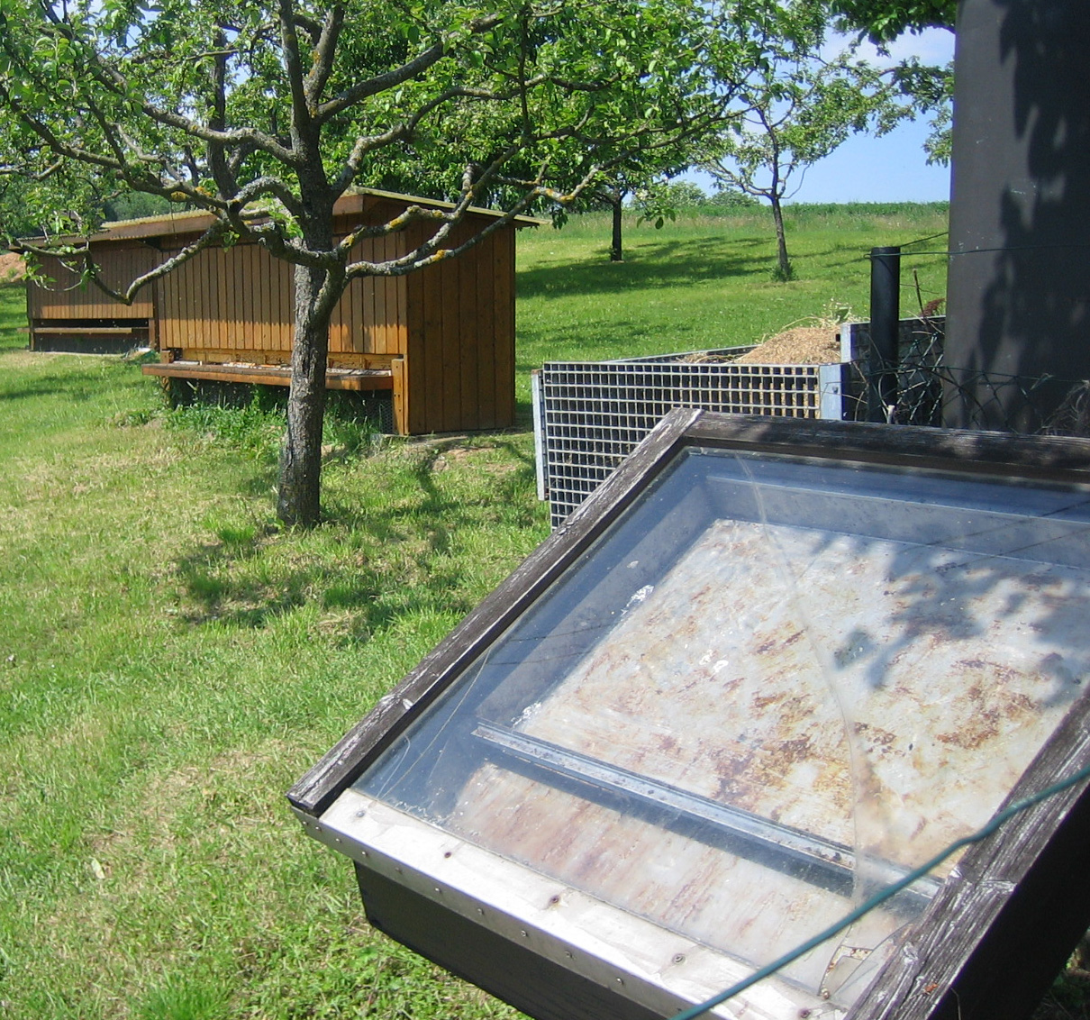 solar wax smelter